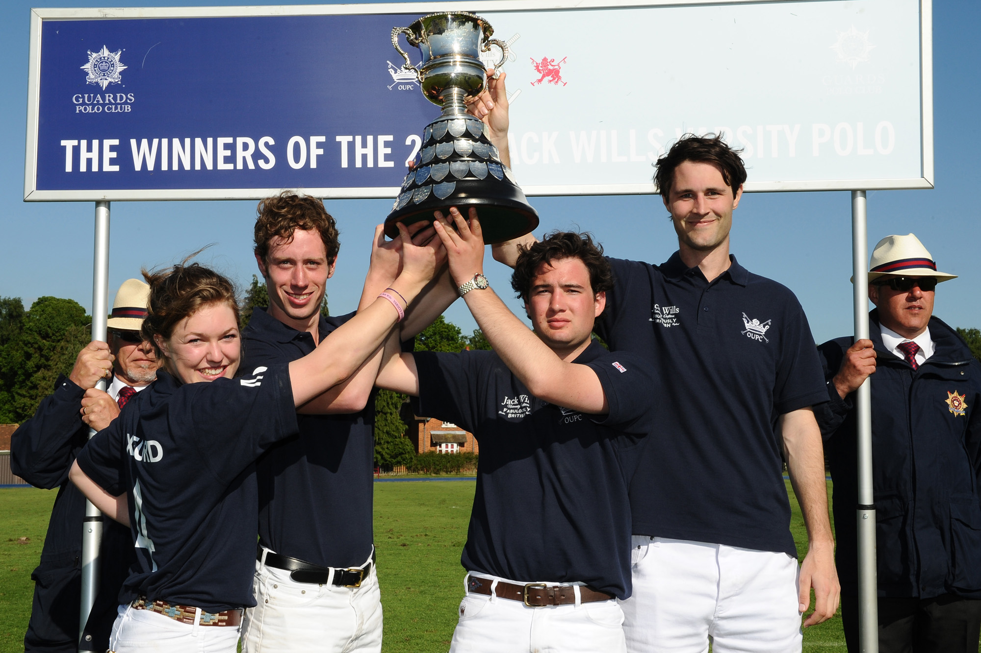 The winning team from Oxford of the Jack Will's Polo Varsity Match 2013.